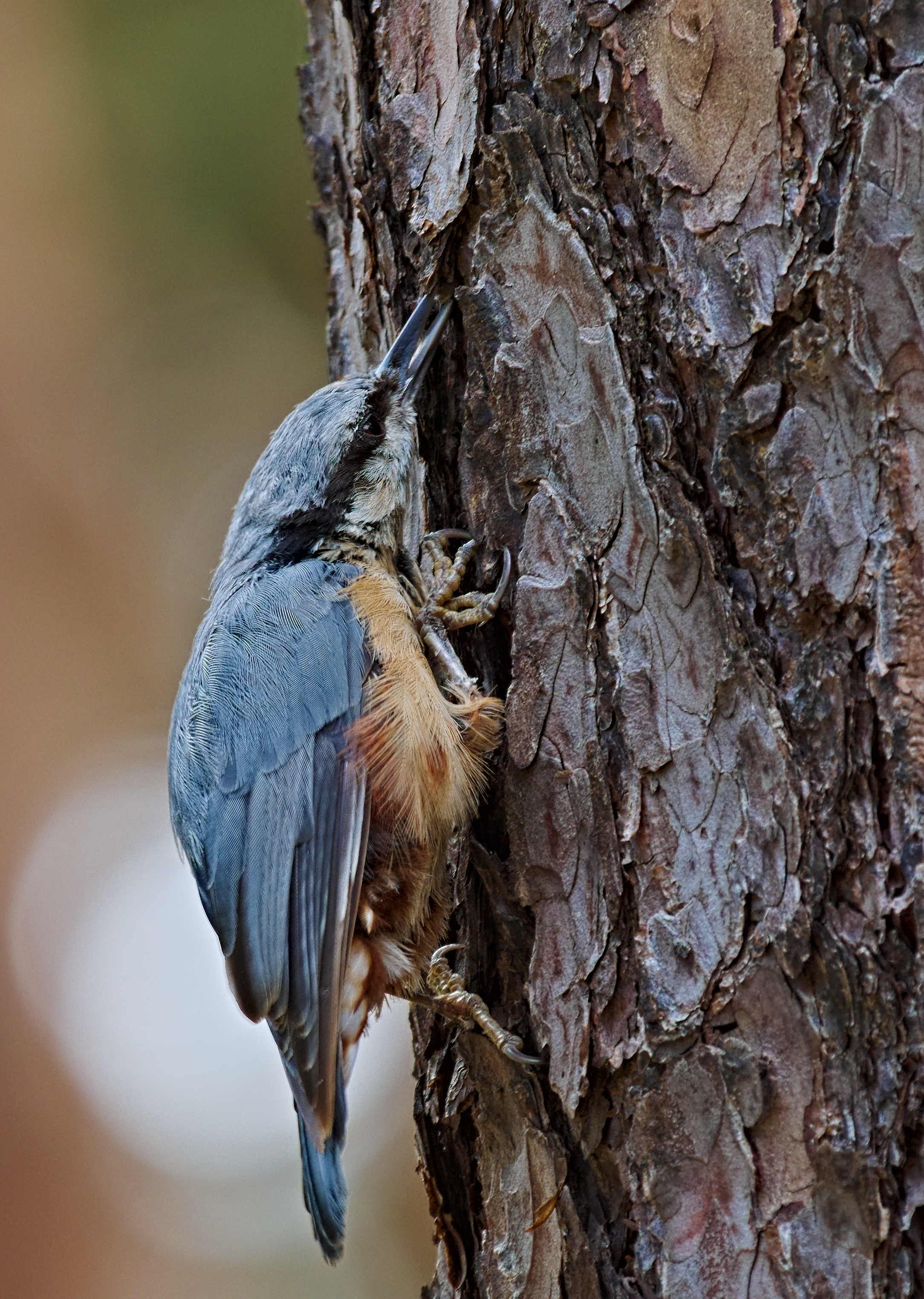 Eurasian nuthatch - Sitta europaea, male. Taken on the Naturcampingplatz on Springsee, Brandenburg, Germany.